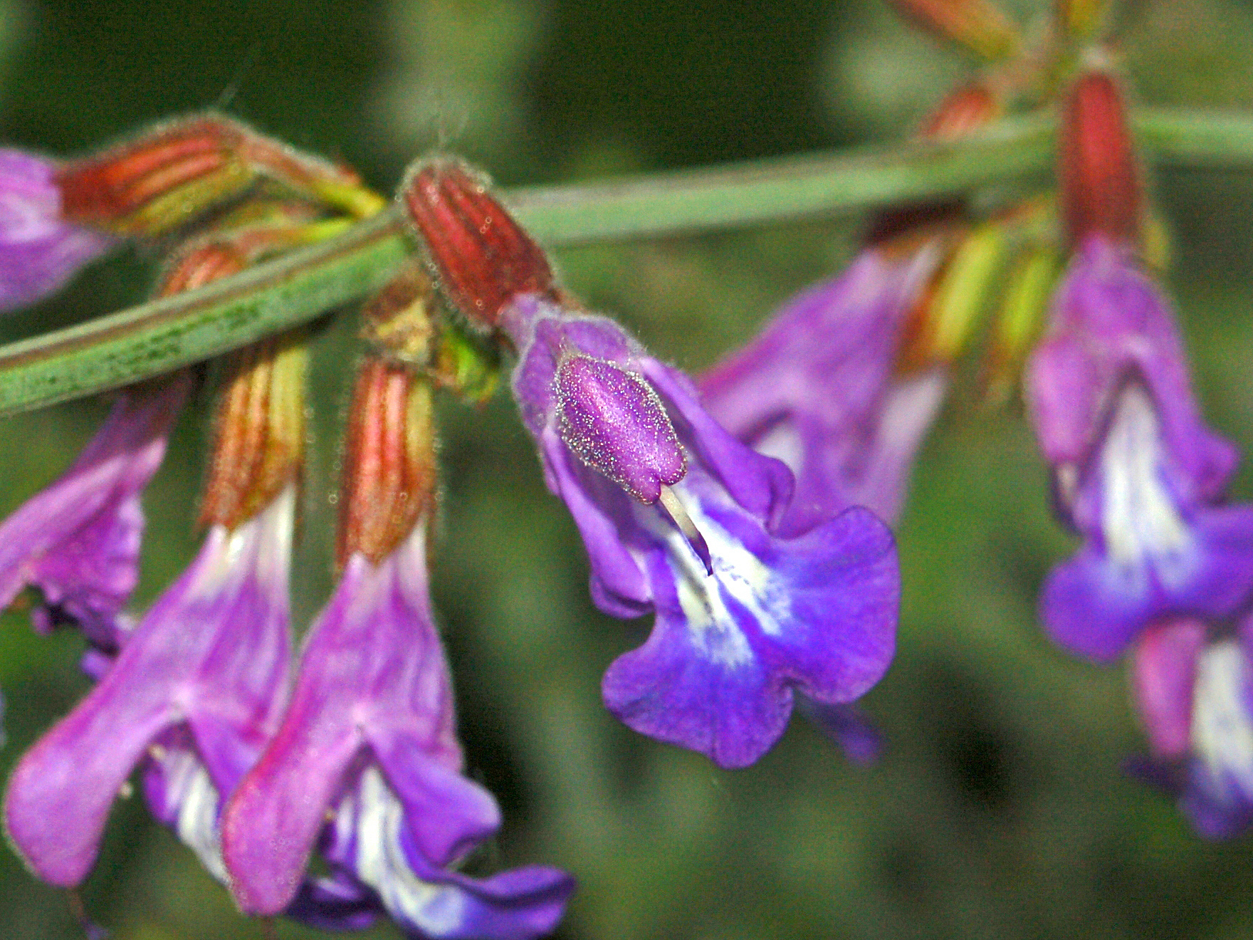 Flowers of Salvia ringens at the botanical garden of Villa Durazzo-Pallavicini, Genova Pegli